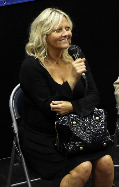 Camille Coduri at Glasgow Collectormania, August 2015